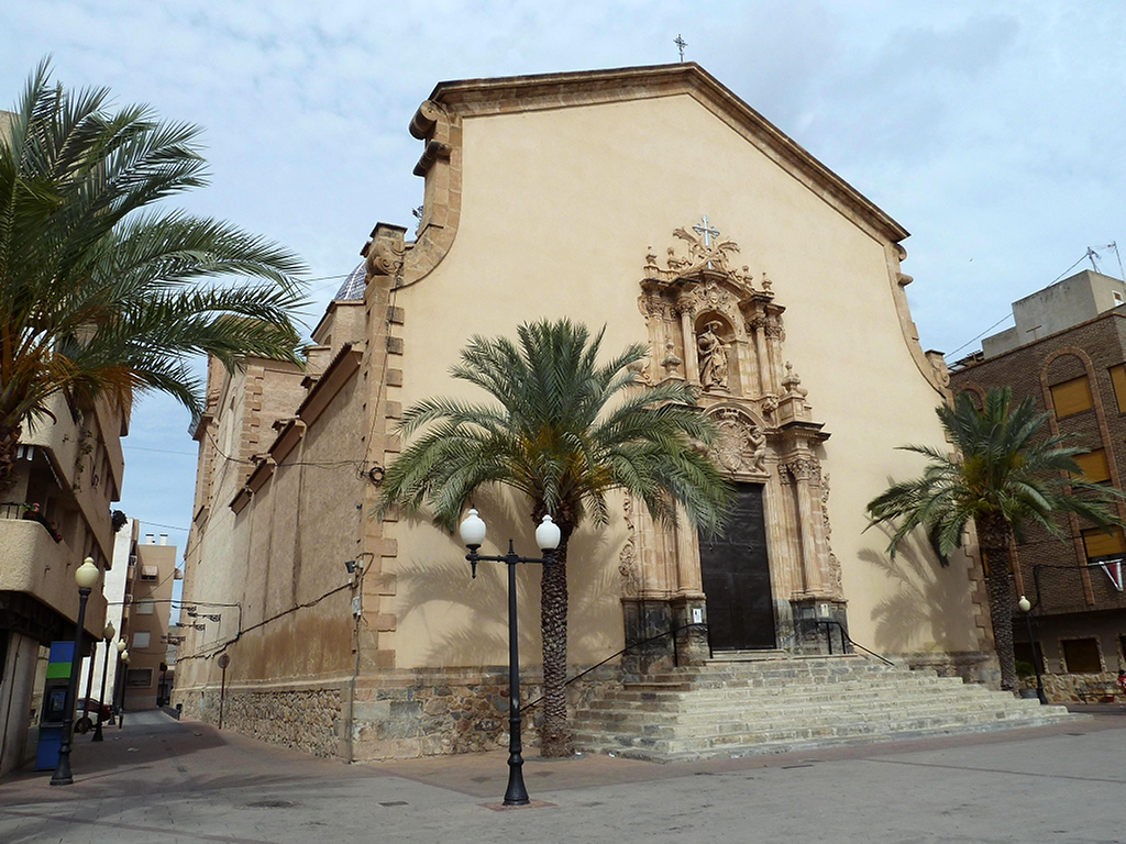 Santiago Apóstol baroque Catholic church of Albatera (Alicante, Spain)